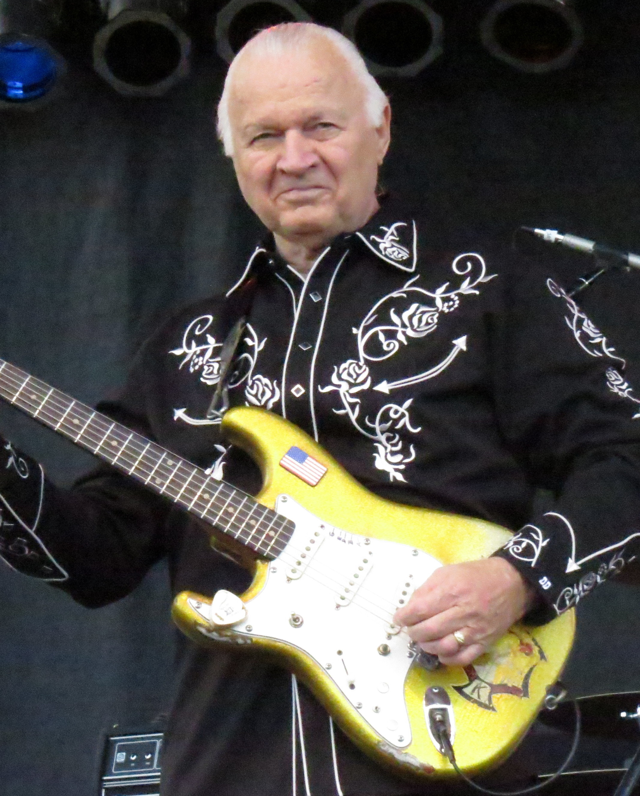 Dick Dale performing at the Orleans Hotel and Casino, Las Vegas